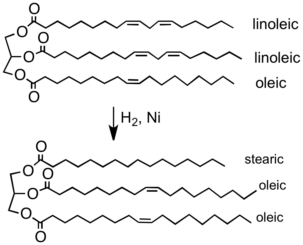 approx chem equ for making margerine component from typical plant oil